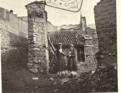 Girls in the ruins of burned Vasiliada